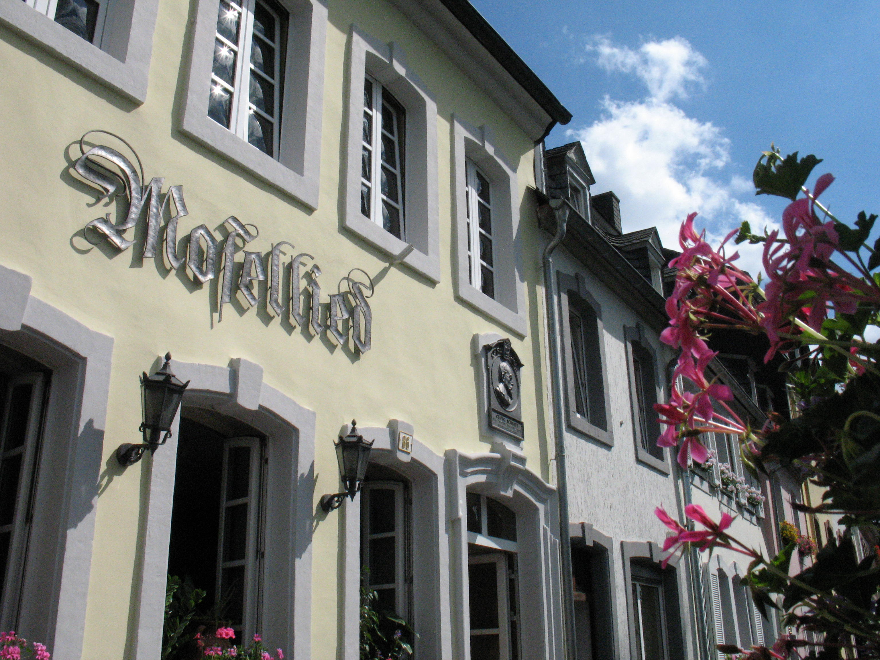 Restaurant and guesthouse Mosellied, Birthplace of Georg Schmitt